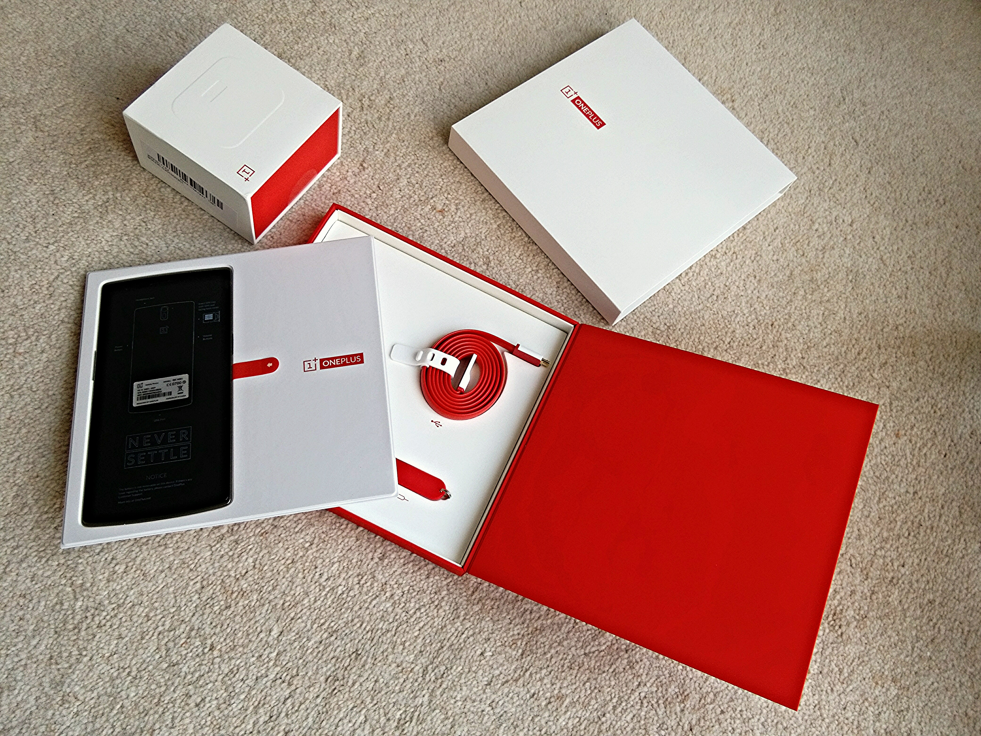 OnePlus One 64GB Sandstone Black unboxed + charger in the box, UK's version (2015).